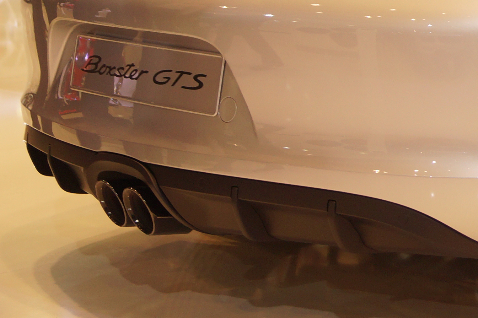 The rear bumper and diffuser of the Porsche Boxster GTS Type 981. It's a cropped version of : by Jakub "Flyz1" Maciejewski